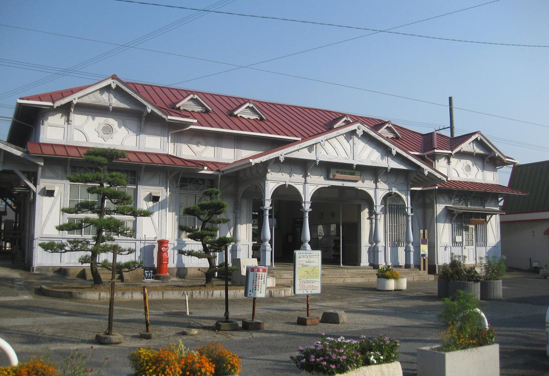 Nankai Railway Hamaderakoen Station, Sakai, Osaka